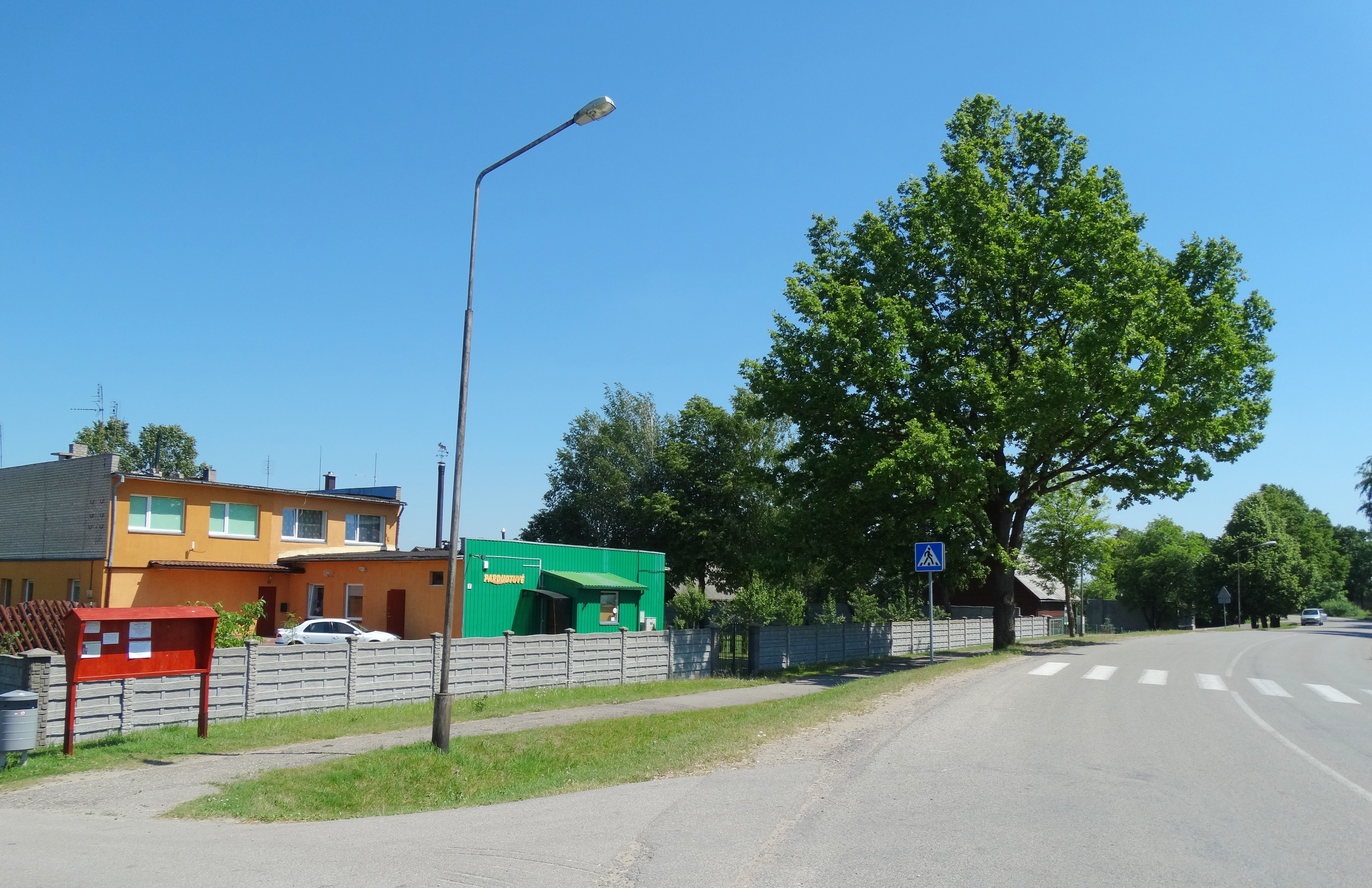 Daugėdai, Rietavas Municipality, Lithuania